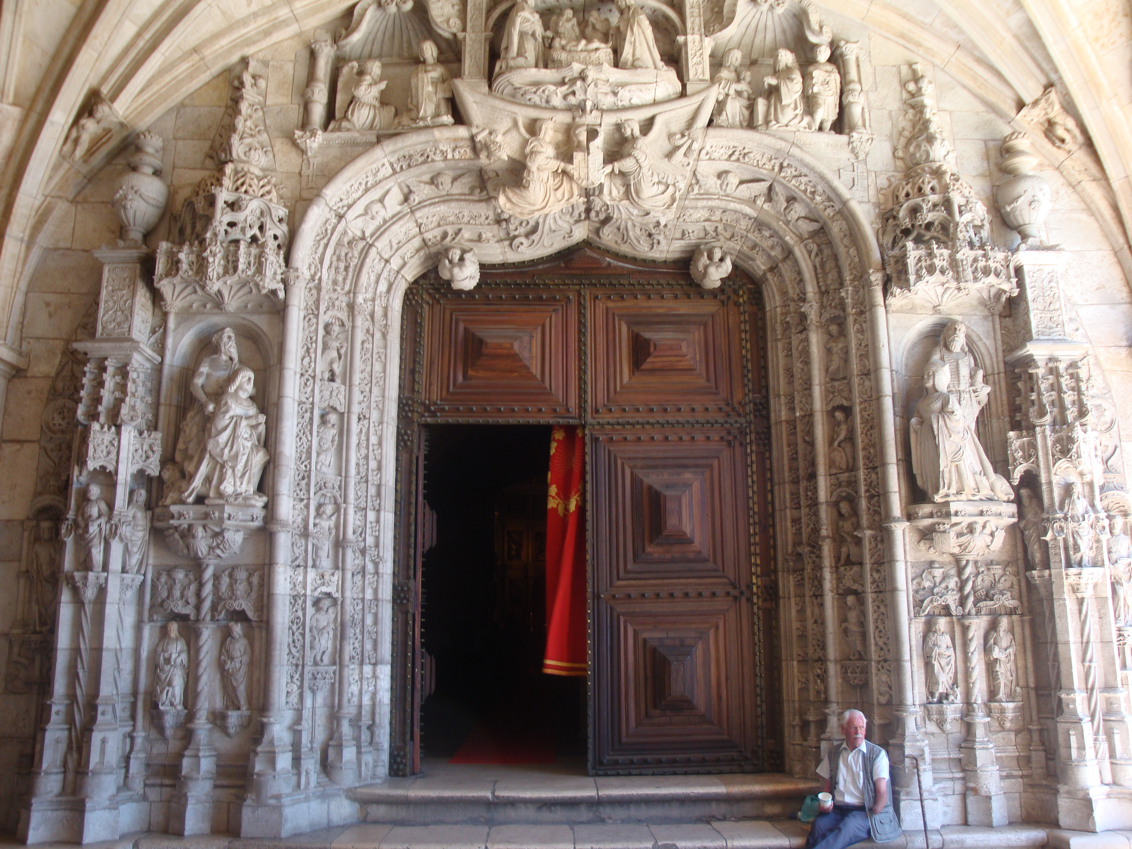 Western portal of the church of the Jerónimos Monastery, Belém, Portugal